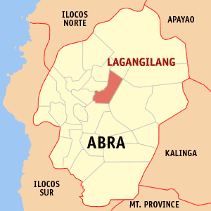 Map of Abra showing the location of Lagangilang